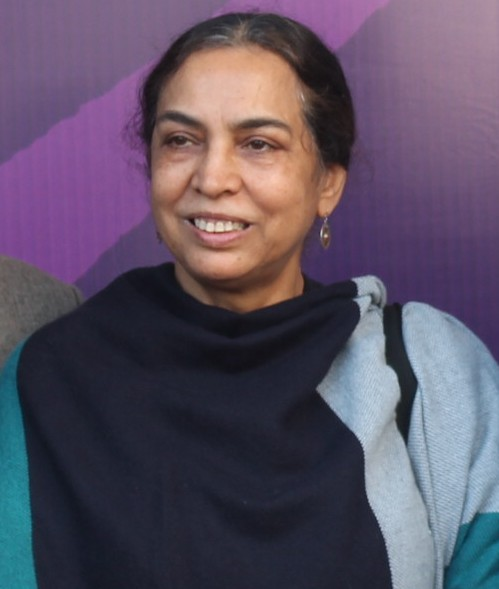 Picture of eminent Indian artist Arpana Caur